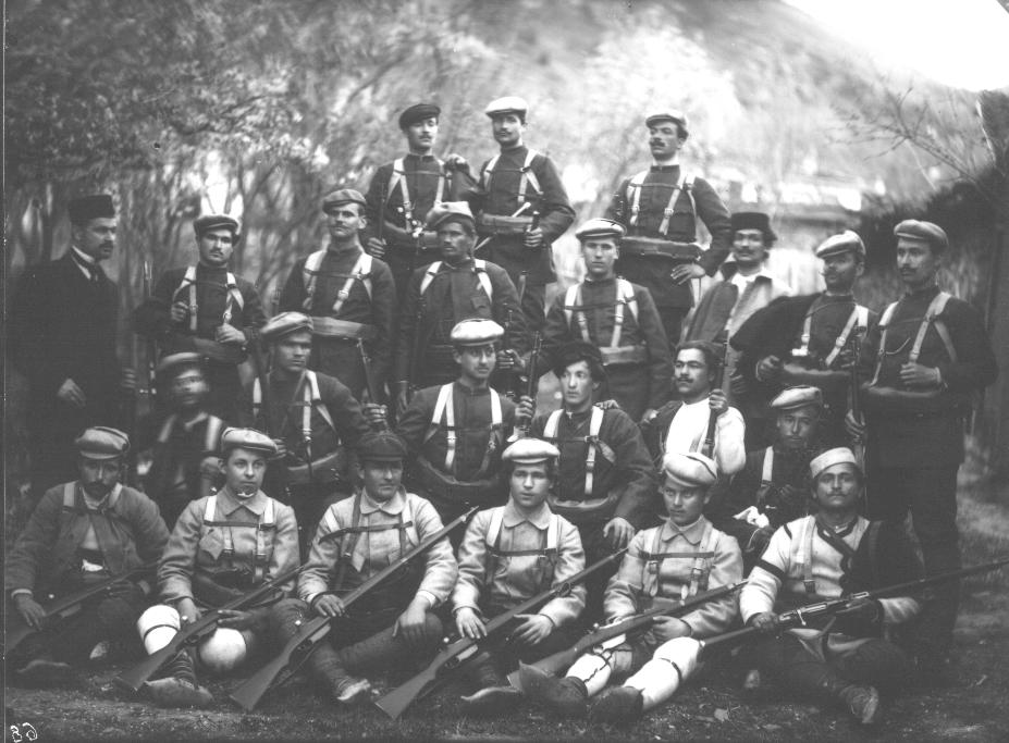 Cheta of Pancho Konstantinov